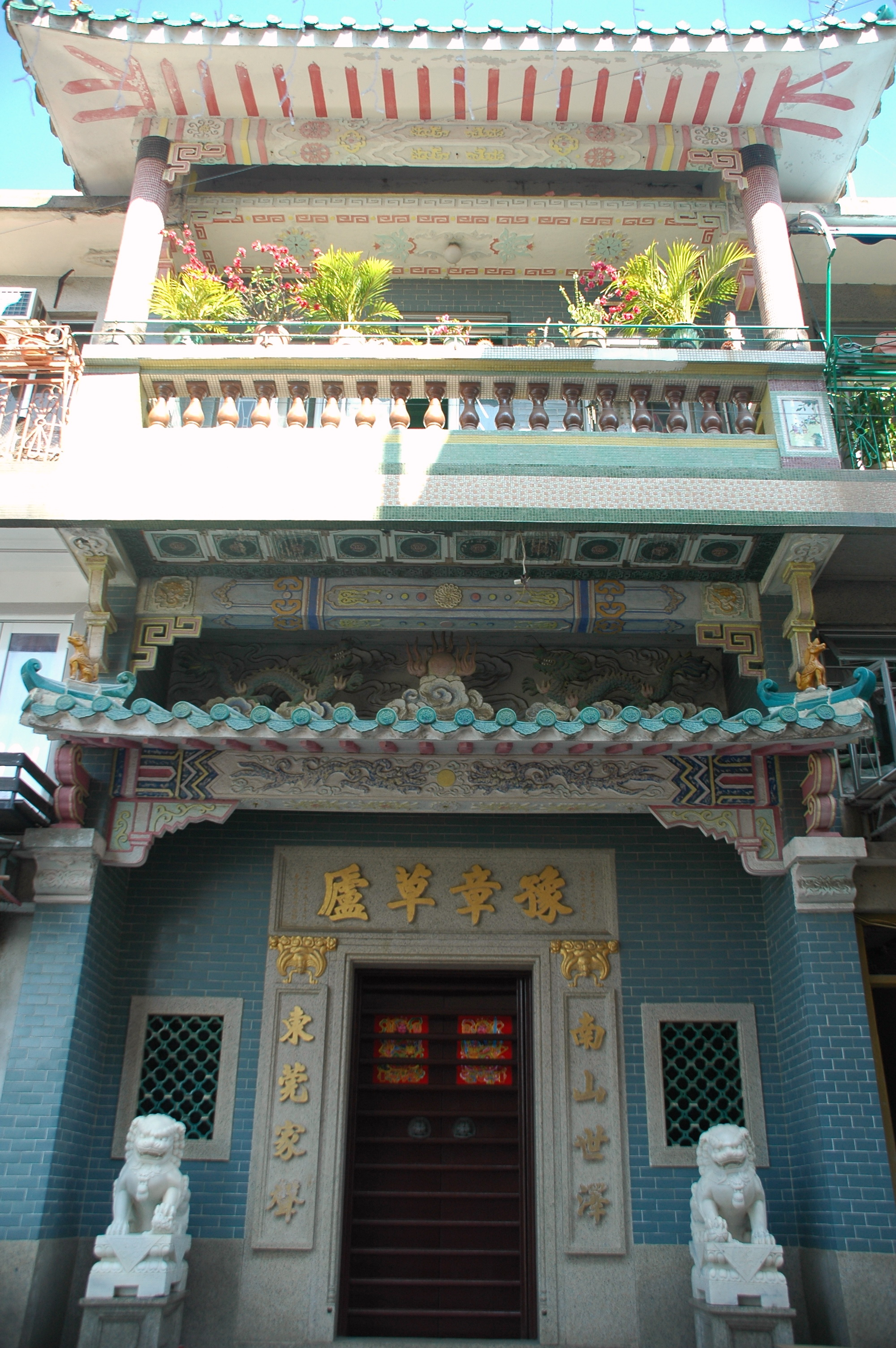 Law Ancestral Hall, Pak She Street, Cheung Chau, Hong Kong.